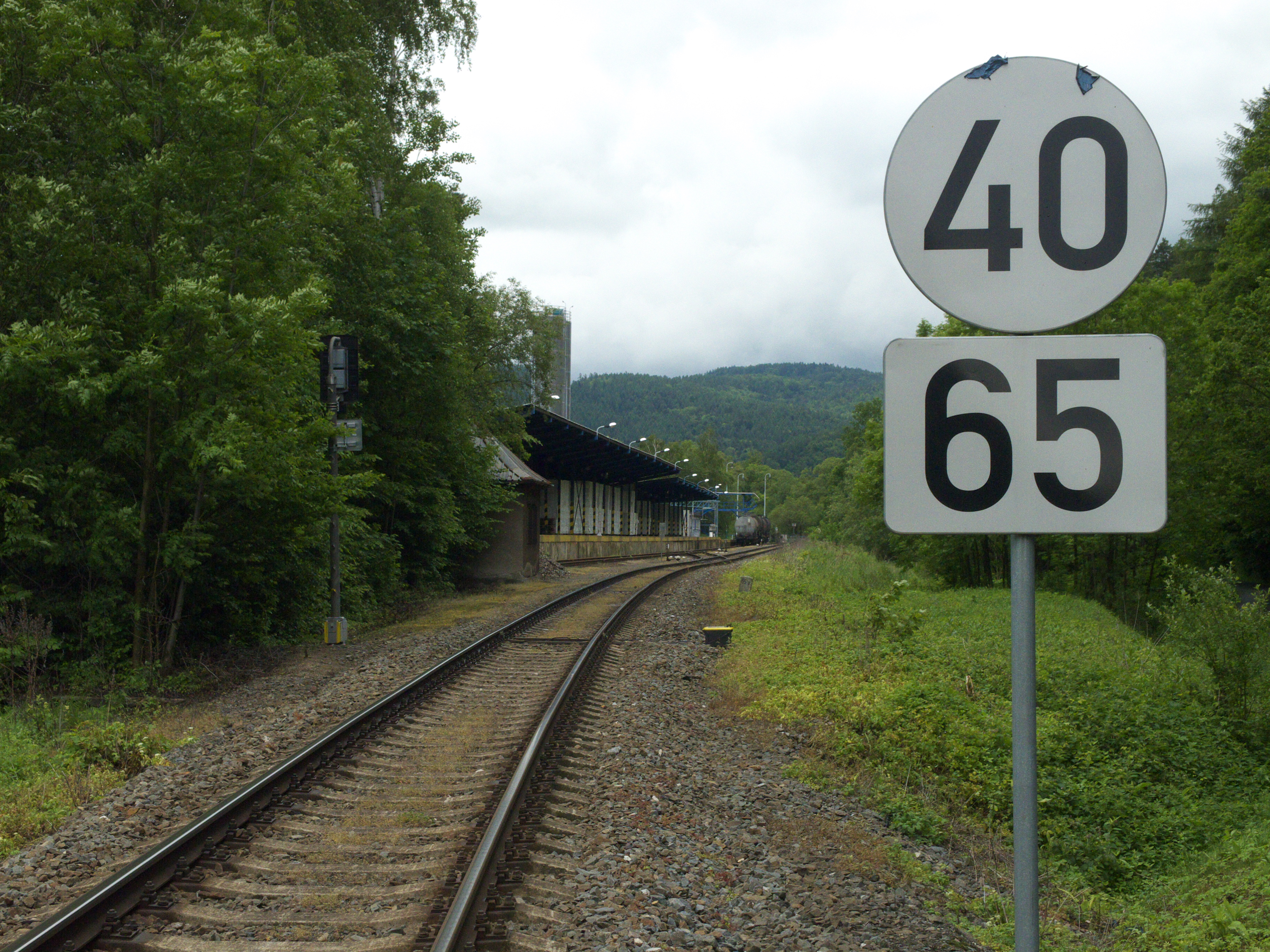 Railroad Line Šumperk - Krnov, Nr. 292